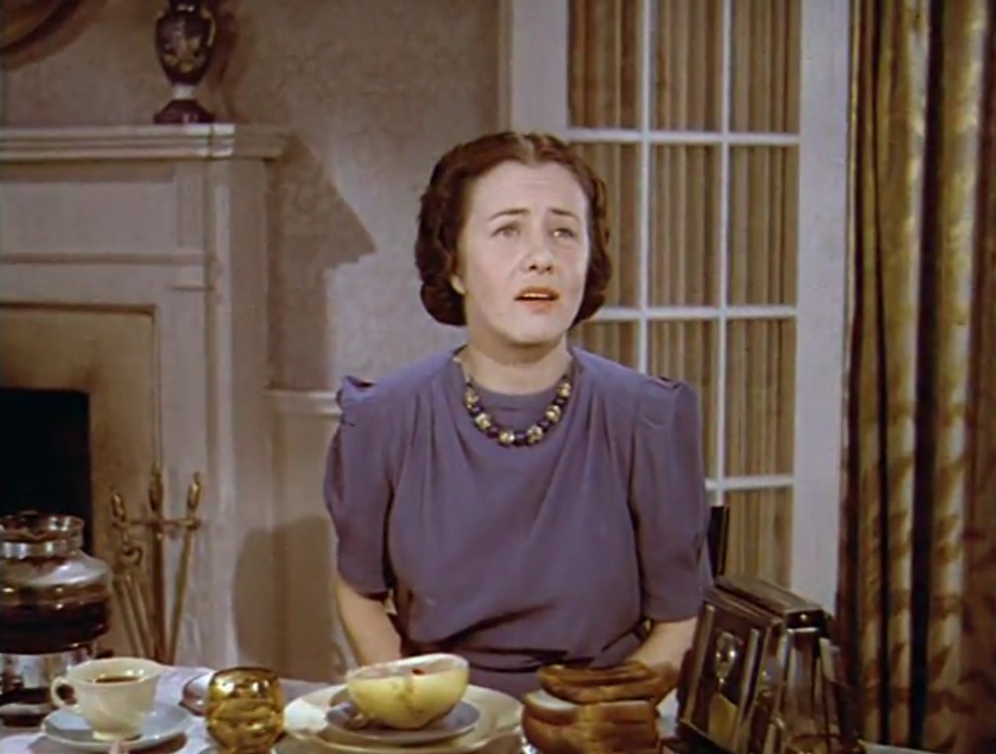 Scene from The Middleton Family at the New York World's Fair. claims this video as public domain, so I boldly believe the copyright has expired.